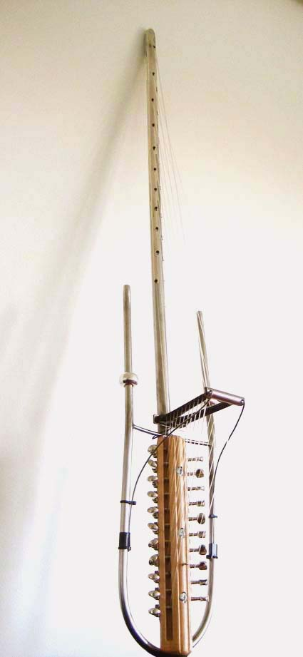 Electric kora invented by Robert Grawi.